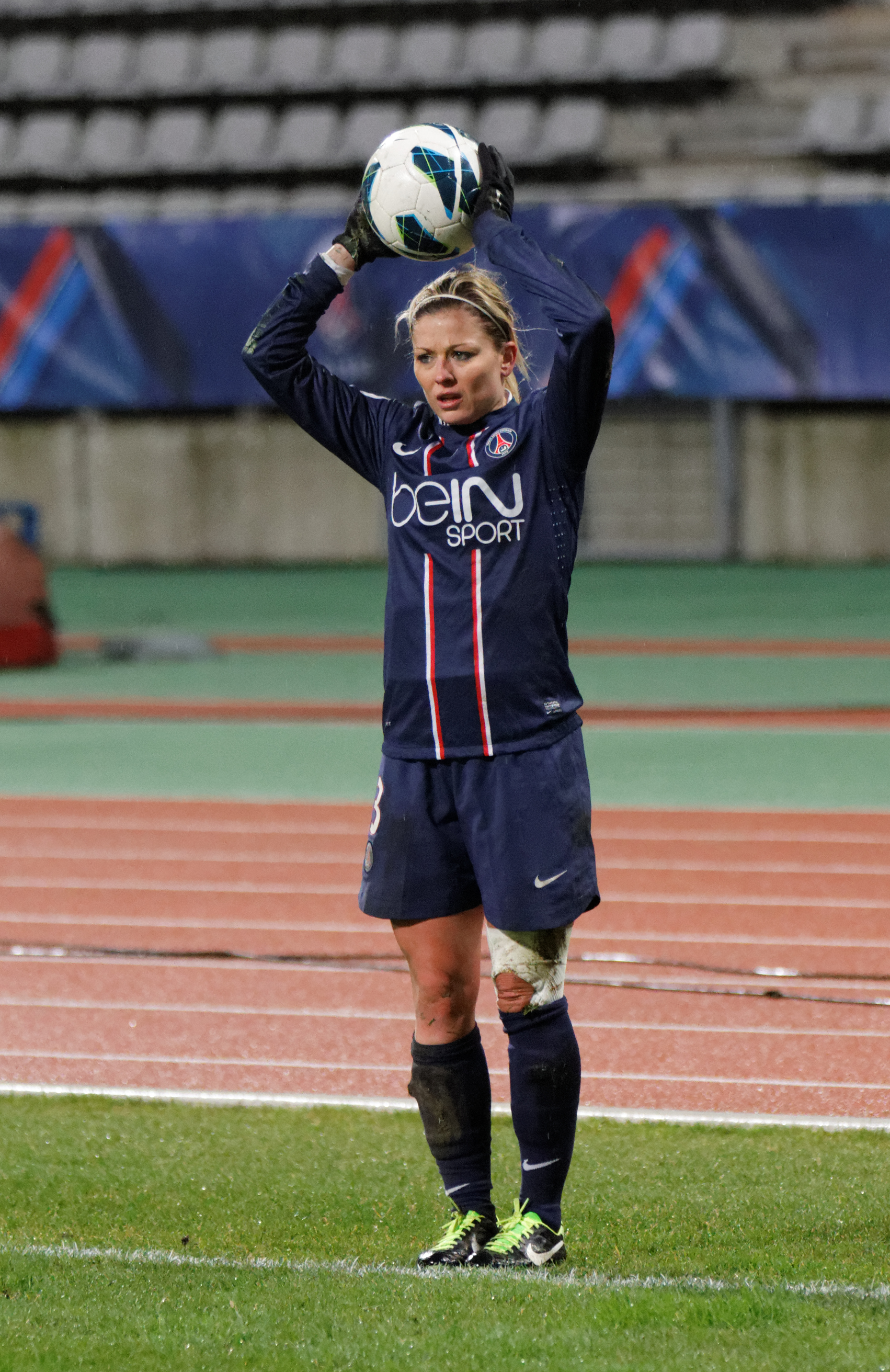 PSG-Montpellier, January 13th, 2013. Throw-in of Laure Boulleau.